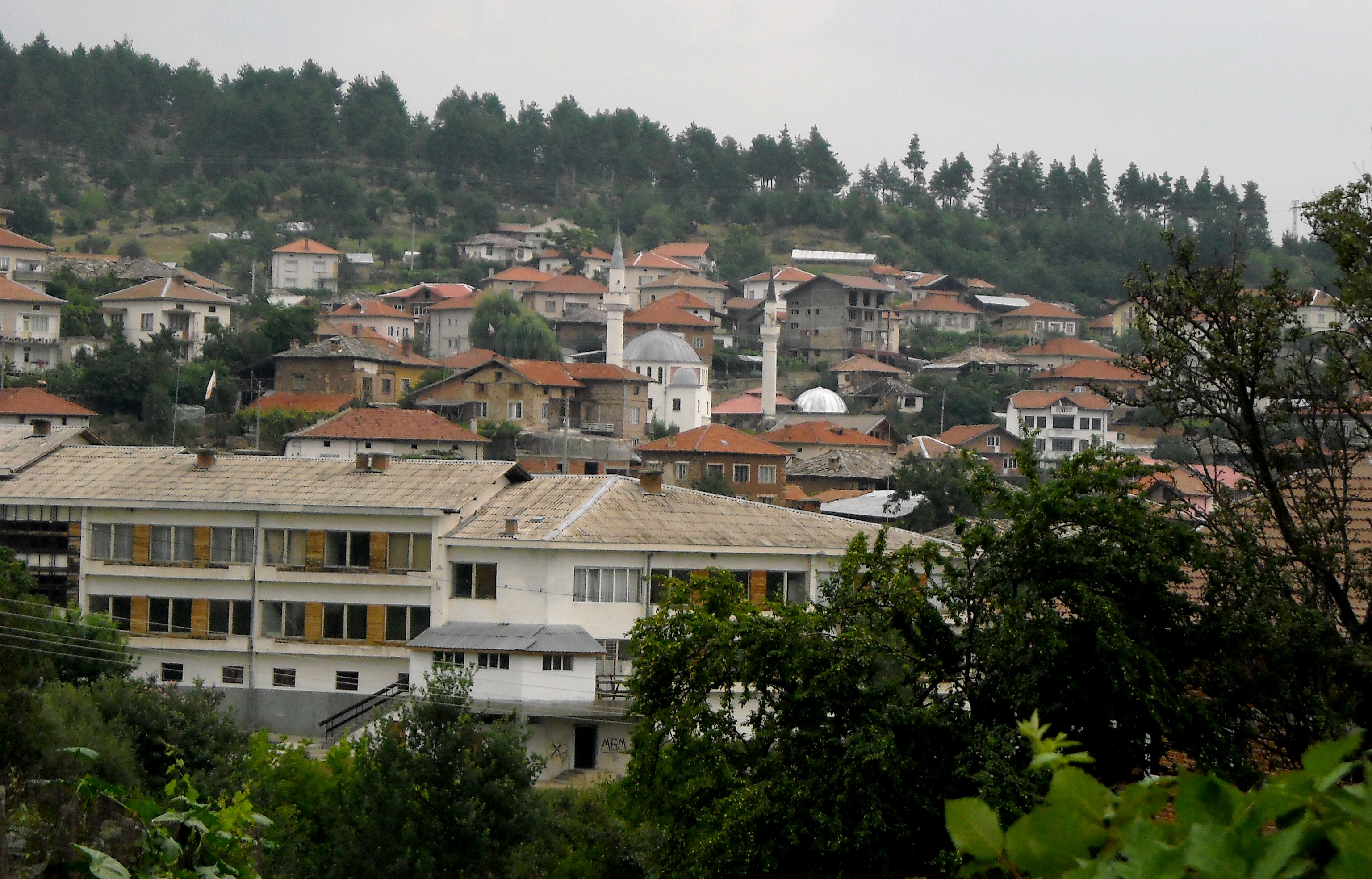 Mosques and school in the village of Dolno Drianovo.